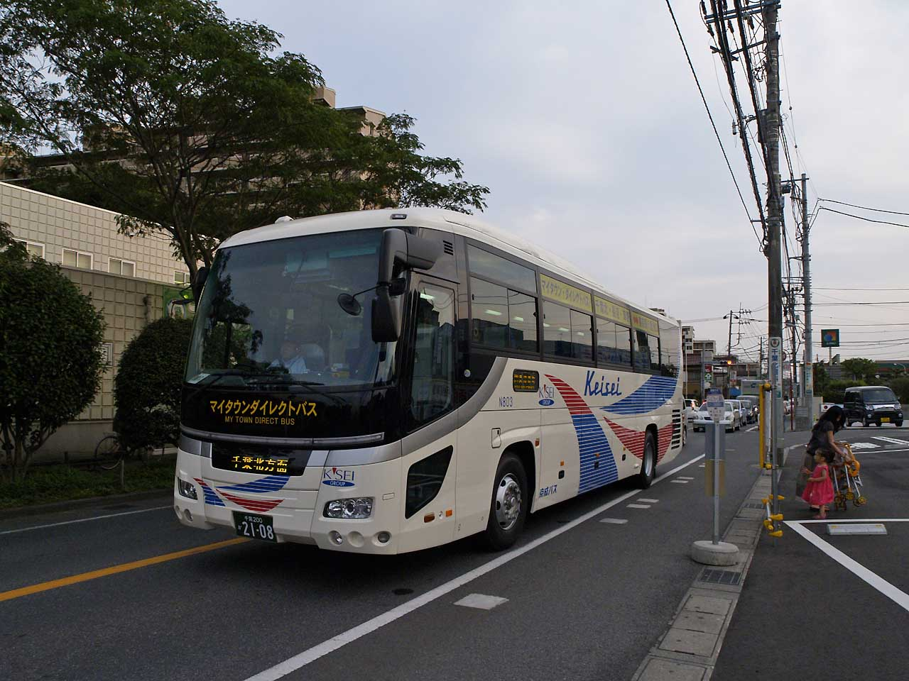 Fleet of Keisei Bus, express bus operating between Tokyo and northern Chiba city, named "My Town Direct Bus". Model: Hino Selega PKG-RU1ESAA License plate: CBC200KA2108 Place: Ville Foret Inage busstop, Inage ward, Chiba city, Chiba Japan